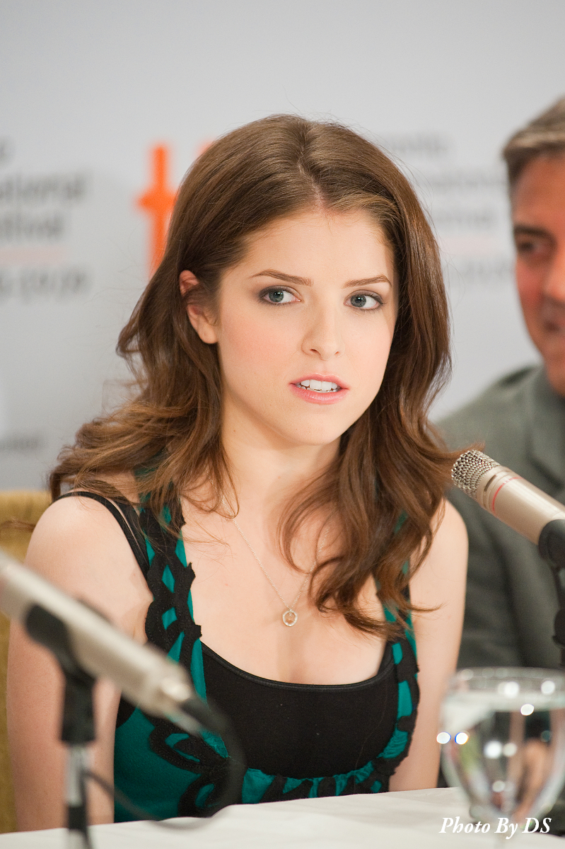 Anna Kendrick at the 2009 Toronto International Film Festival.